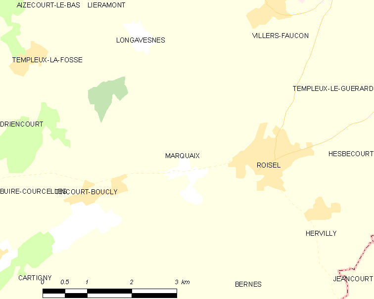 Map of French municipality Marquaix